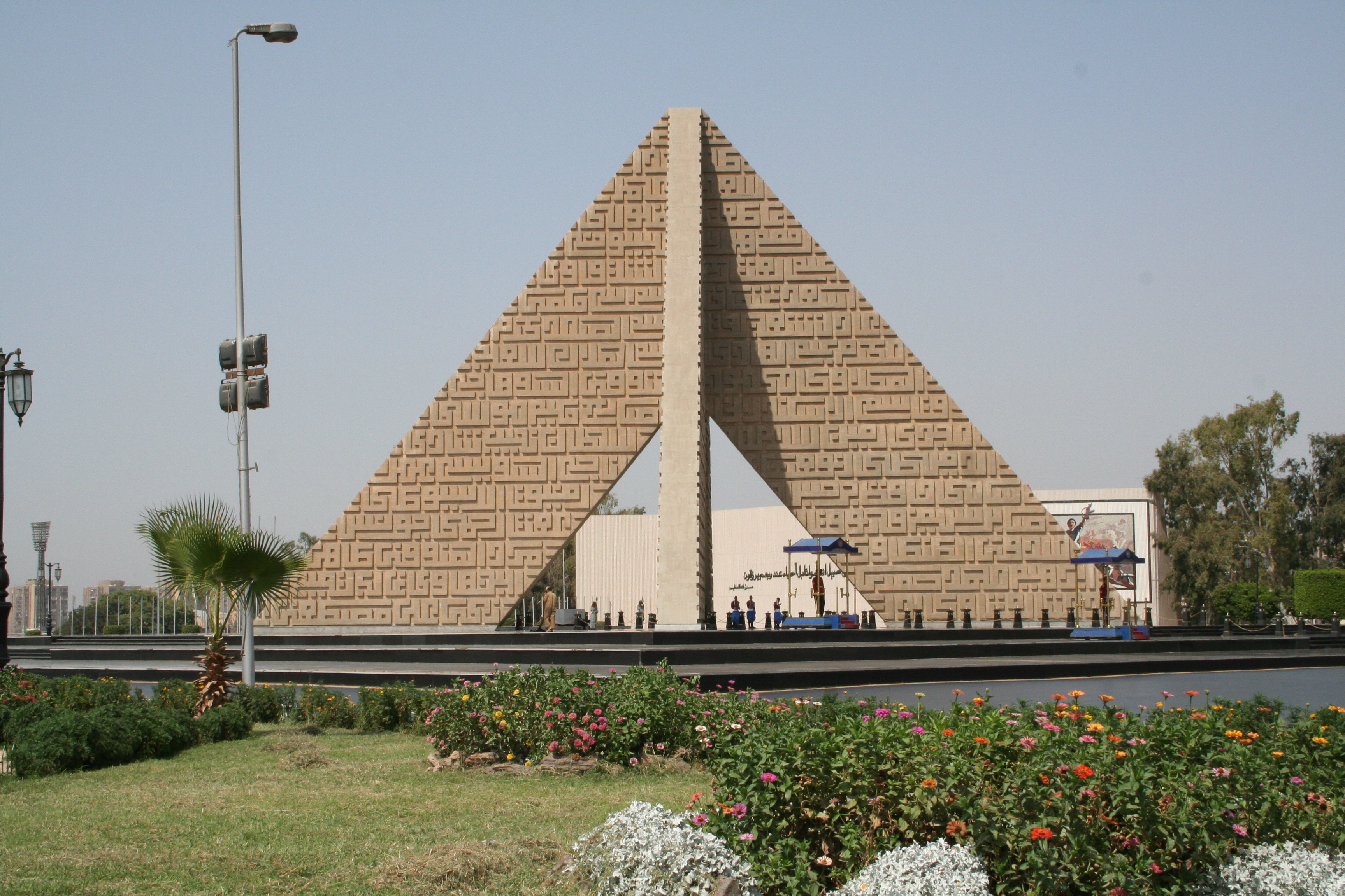 Tomb of the unknown Soldier, and Tomb of Anwar as-Sadat, in Nasr City, Greater Cairo.